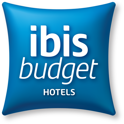 Logo of Ibis Budget